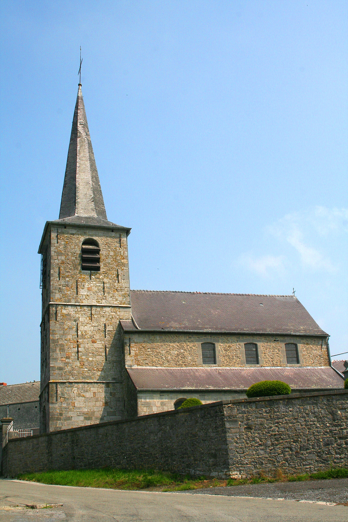 Leugnies (Belgium), the St. Martin church (XIIIth century).